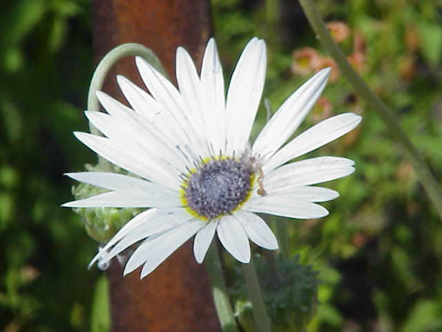 Species: Arctotis venusta Family: Asteraceae Image No. 1